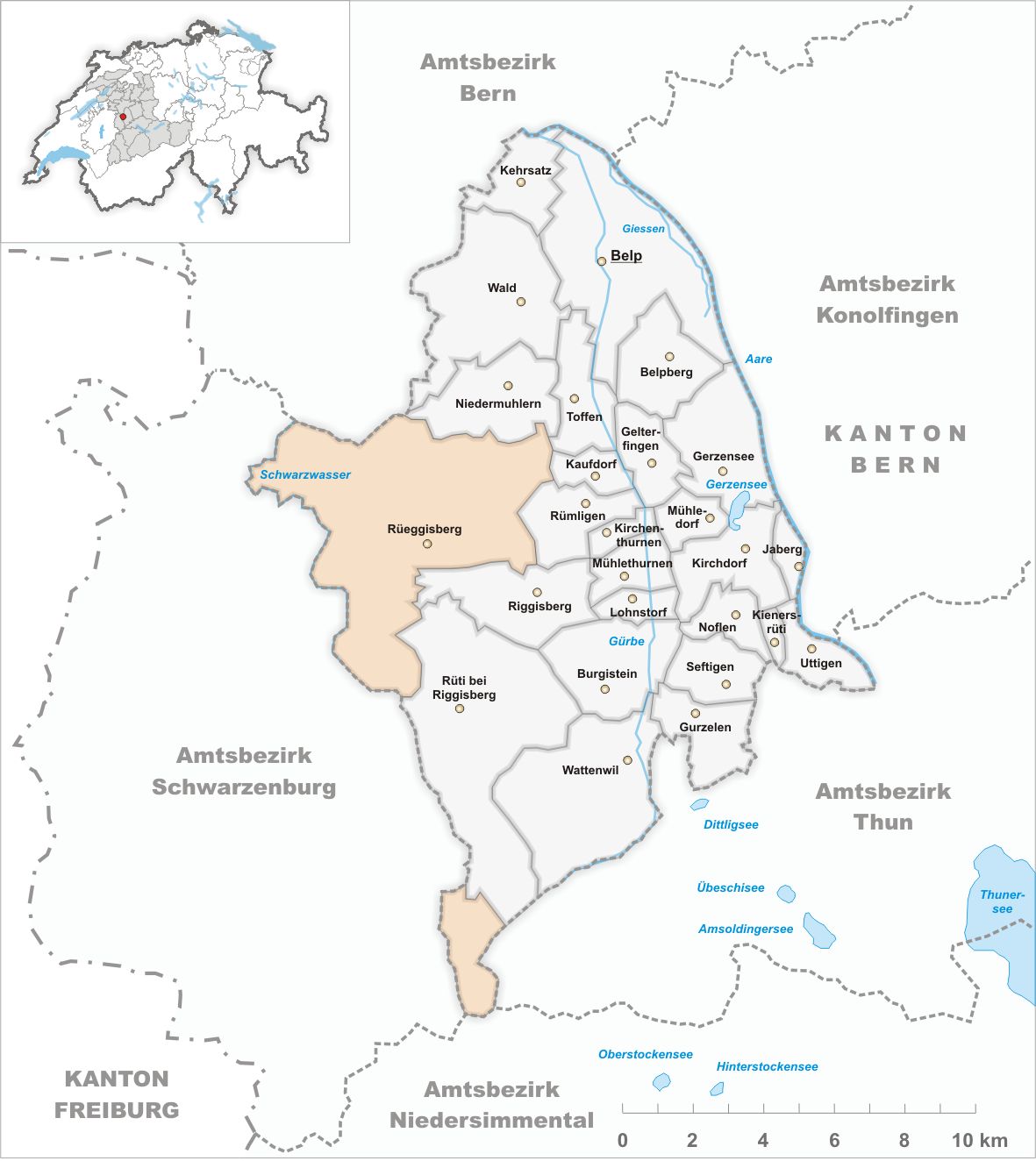 Municipality Rüeggisberg